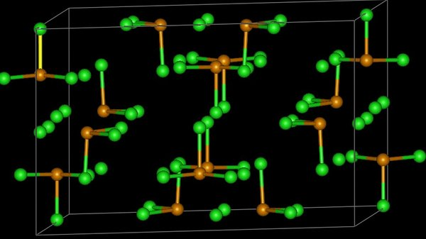 TeCl4 (or SeCl4) structure